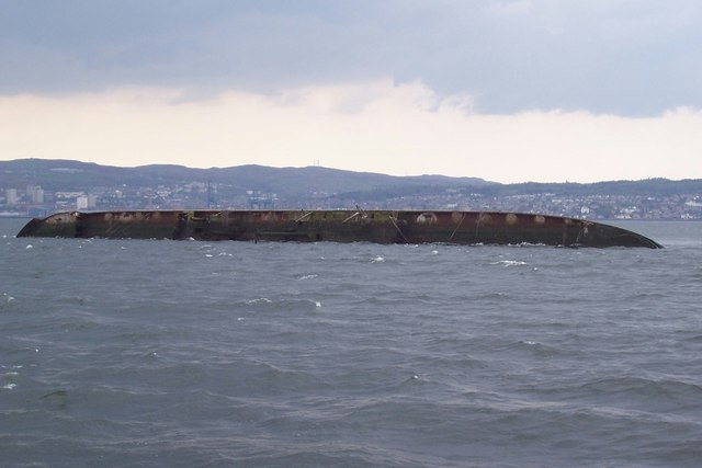 MV Captayannis The MV Captayannis was launched in 1946, and sank on 27 January 1974. It was a Greek sugar-carrying vessel which broke free from anchor during a storm off Greenock and collided with an oil tanker. The tanker's anchor chains holed the Captayannis and water began pouring in; the Captain elected to steer her onto a sandbank, and there she later turned onto her side. The Captayannis is an important roost site for birds on the estuary.